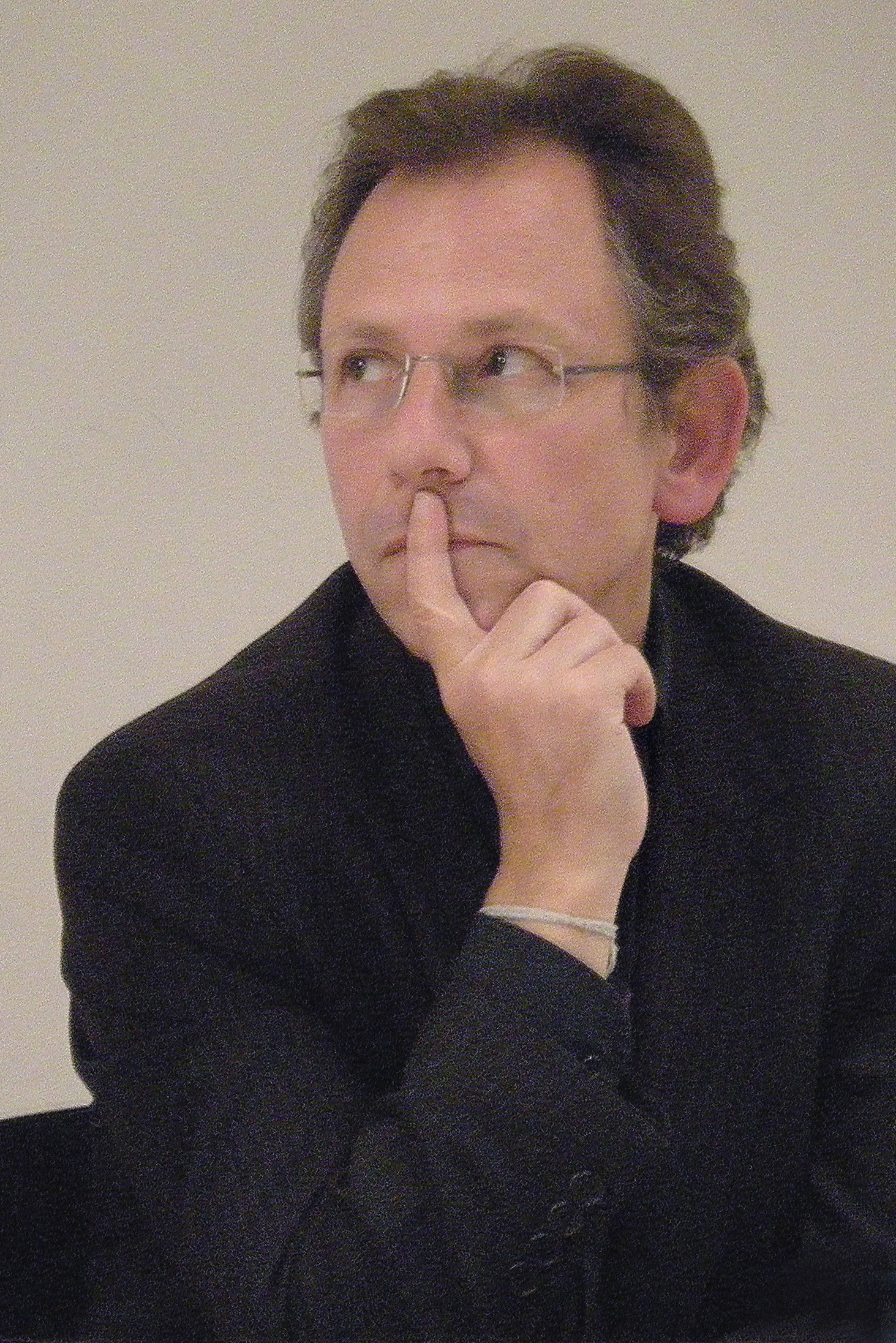 Doron Rabinovici presenting his outspoken novel 'Andernorts' in Vienna, Austria. Please note that camera's time stamp is set to UT, which is local CEST -2h.